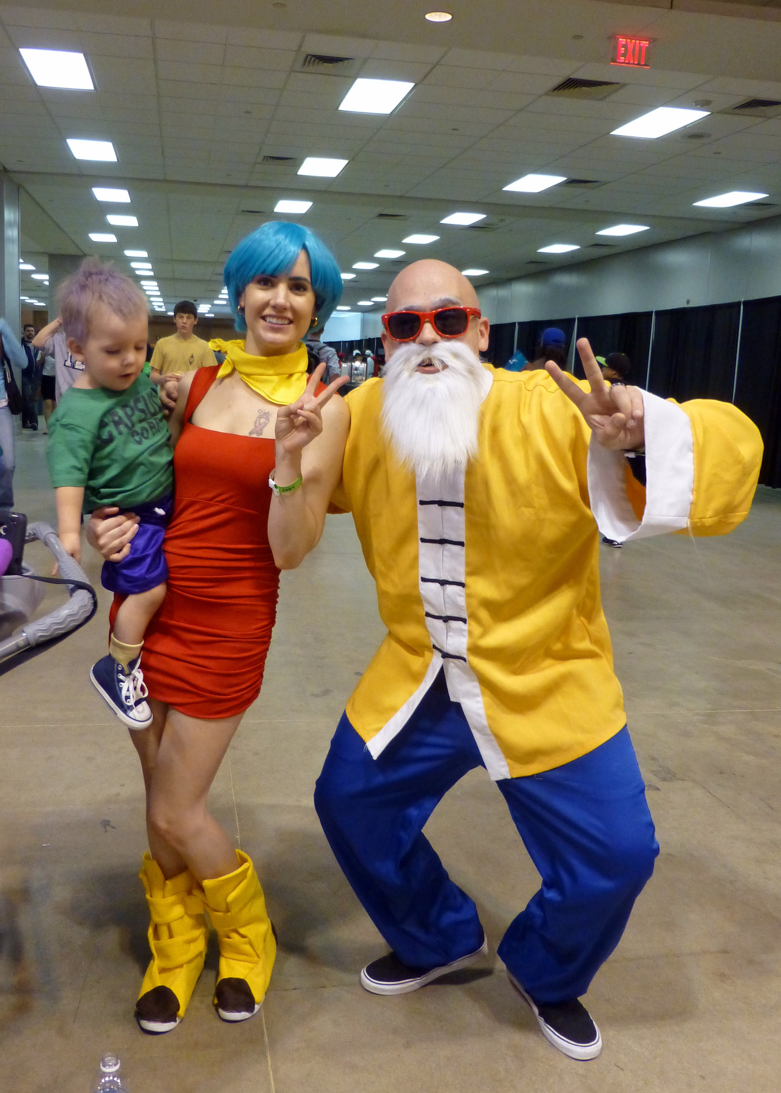 Cosplay Bulma and Master Roshi (from Dragon Ball Z) at Wizard World St. Louis 2014.